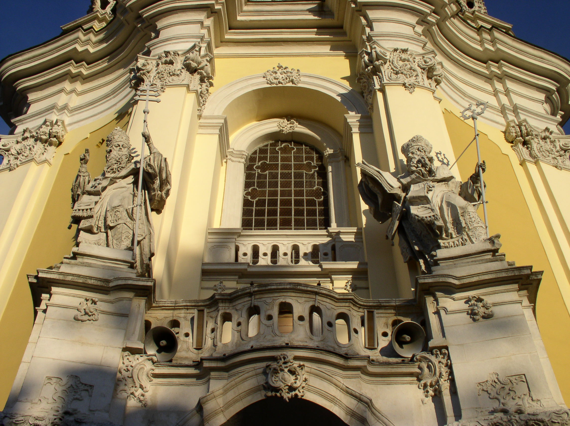 Cathedral of Saint George. Lviv, Ukraine. two statues st. Leo and st. Athanasius, a symbol of the unity of the Church